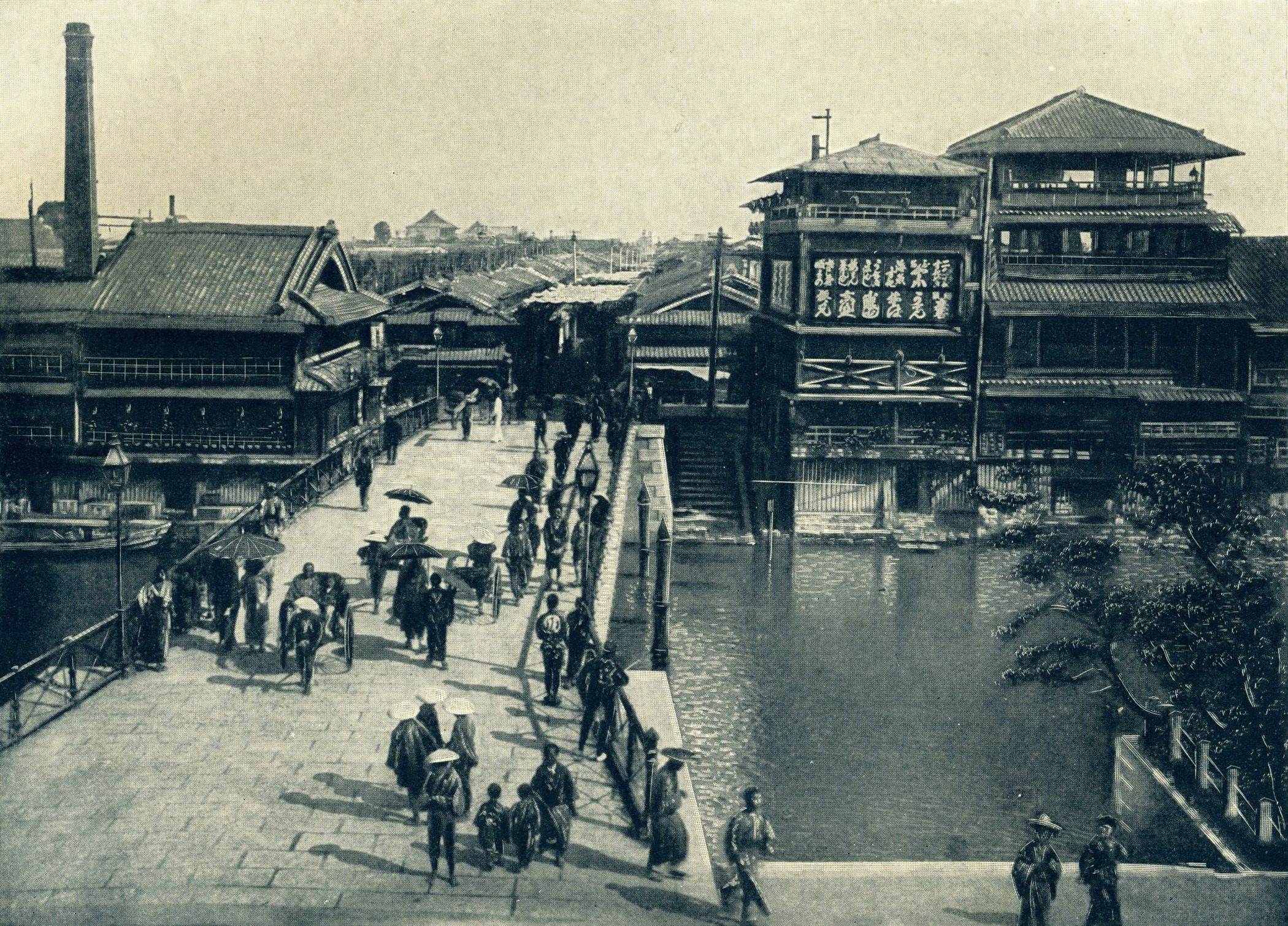 Iebisso, suburb of Osaka (the name "Iebisso" is taken from the cutline, and, probably, has become outdated). Image from the book "Japan And Japanese" (1902)